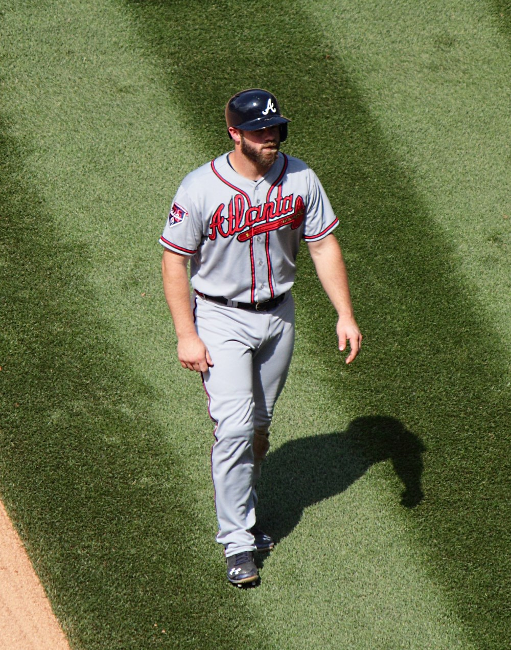 After a June 12, 2014 game at Coors Field, Evan Gattis returns to the dugout